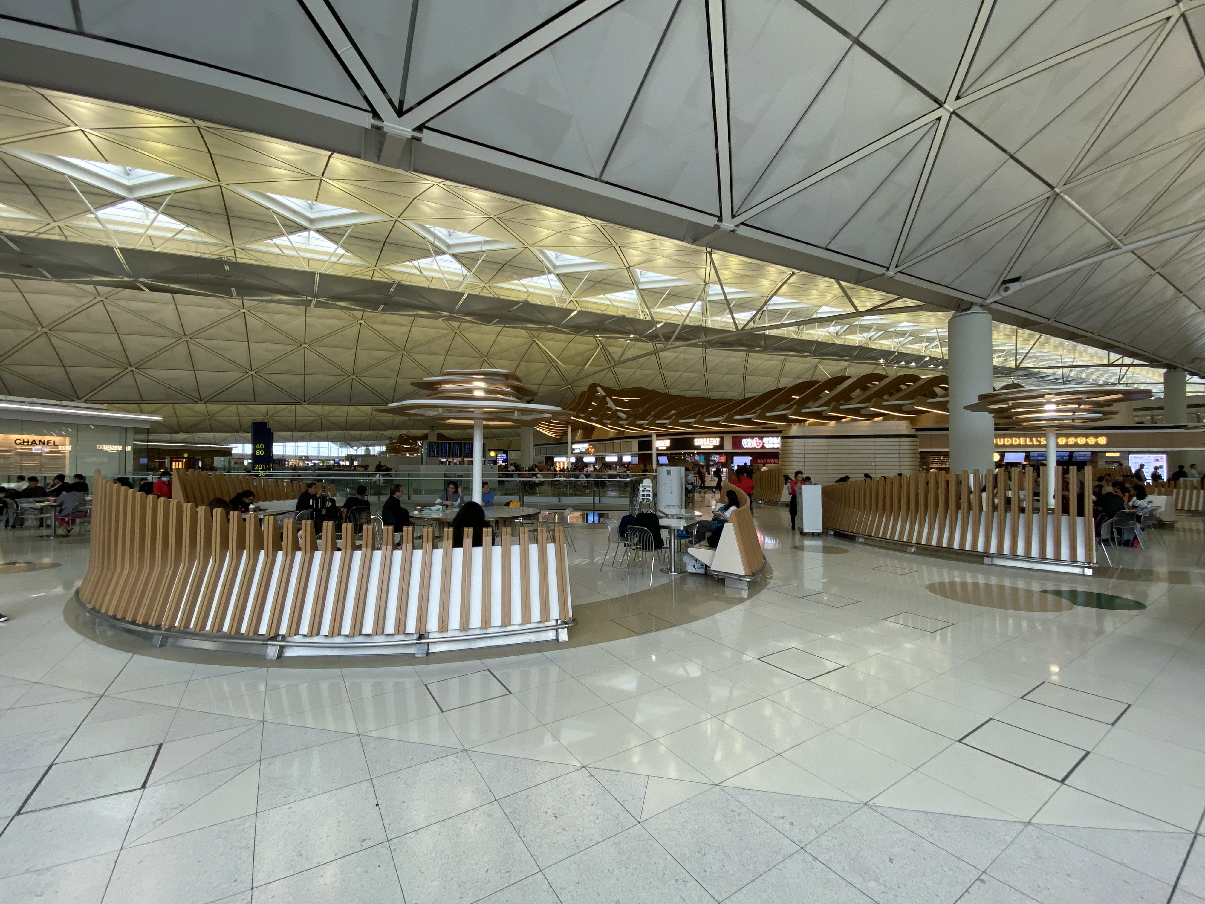 HKIA Terminal 1 Food court after renovation